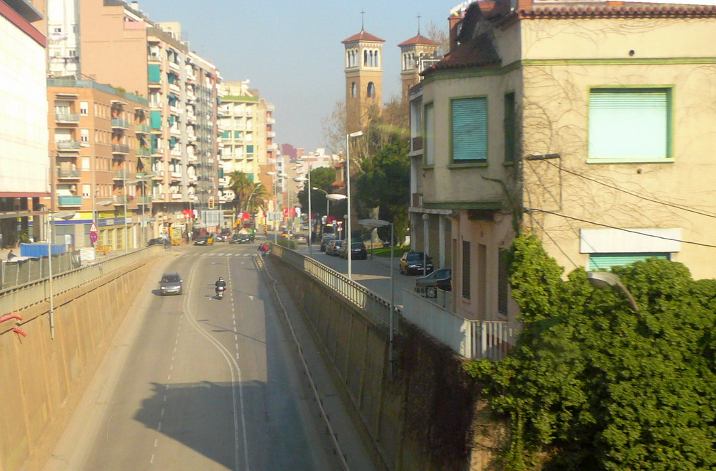 Santa Eulàlia street in l'Hospitalet de Llobregat.